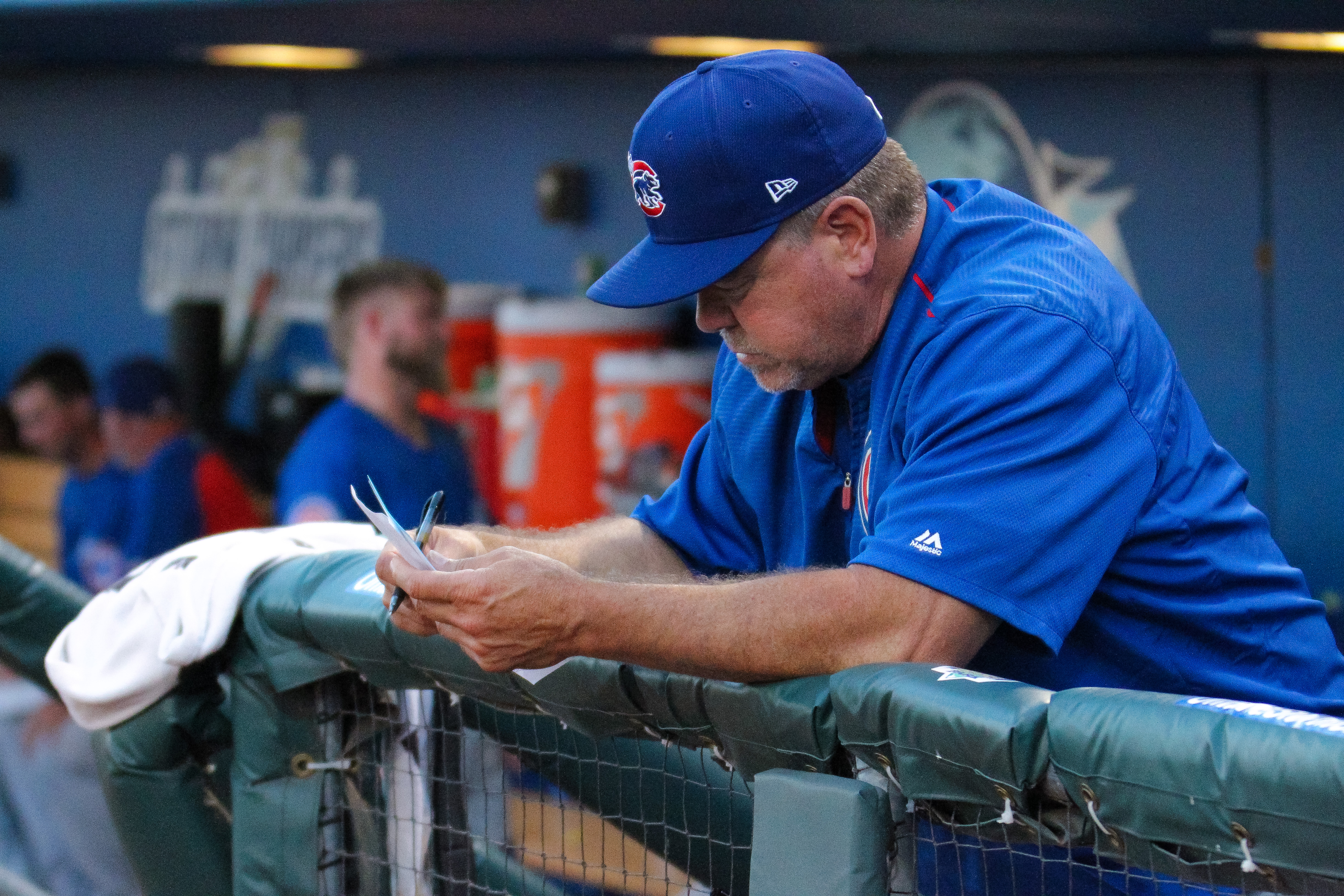 Minda Haas Kuhlmann | 2017 USAGE INSTRUCTIONS: You are welcome to share or publish to your own site or social media account, but you MUST credit me, Minda Haas Kuhlmann, or by my Twitter handle (@minda33) or Instagram (minda.haas).